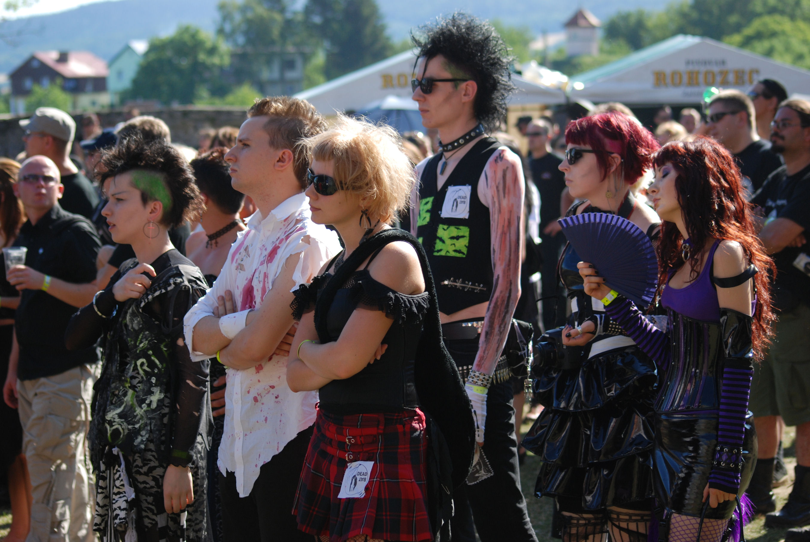 Castle Party 2008